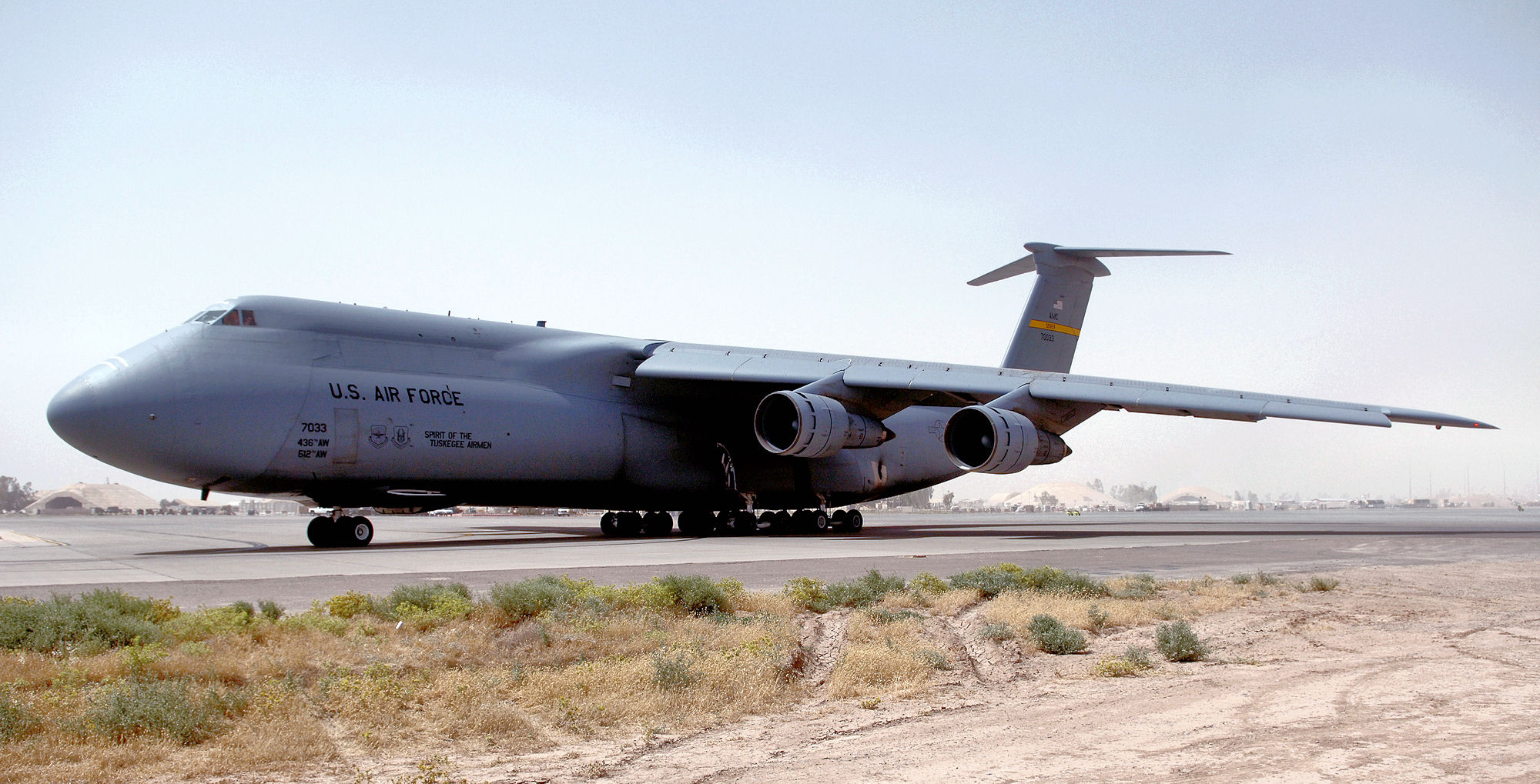 Moving the goods at Balad A C-5 Galaxy waits for clearance to taxi out on the parking ramp at Balad Air Base, Iraq, on Tuesday, June 6, 2006. The aircraft is from the 436th Operations Group at Dover Air Force Base, Del. (U.S. Air Force photo/Staff Sgt. Tony R. Tolley)